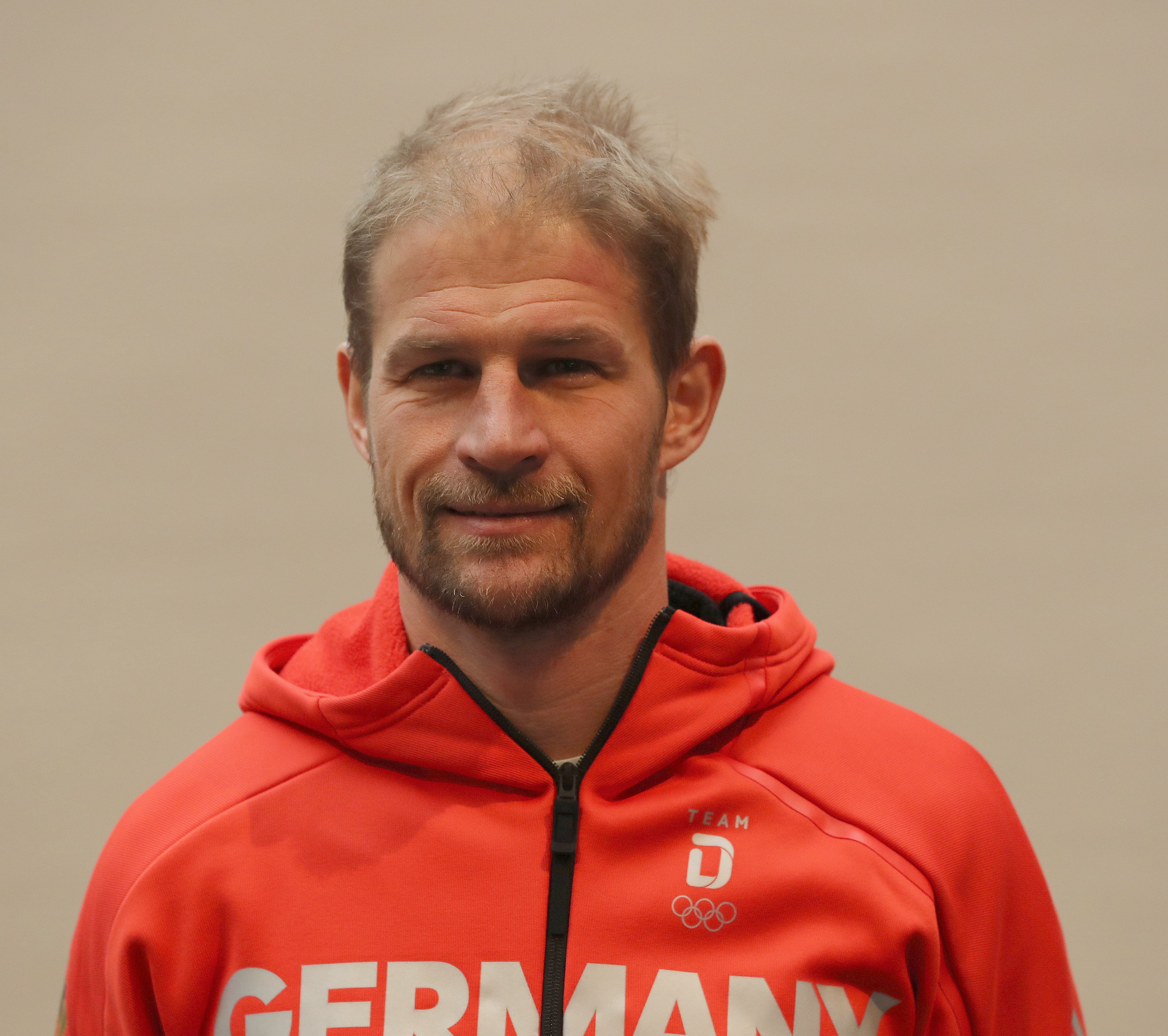 Portraits at the Clothing of the German team for Winter Olympics 2018 in Pyeonchang.